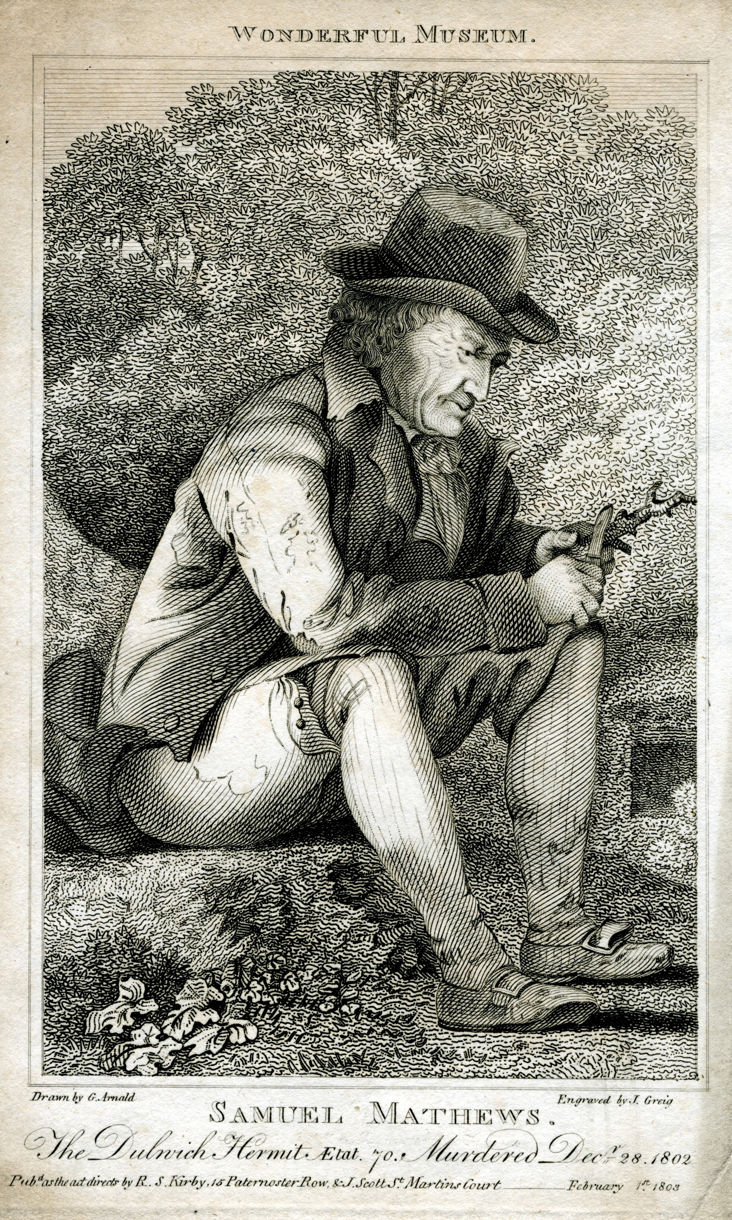 Engraving of English hermit Samuel Matthews, 1803. Engraving published in Wonderful Magazine by J. Greig. Based on a drawing by G. Arnald, made on September 1802 at Matthews' cave - within Matthews' lifetime. Captions contain a short inaccurate biography of Matthews' life.